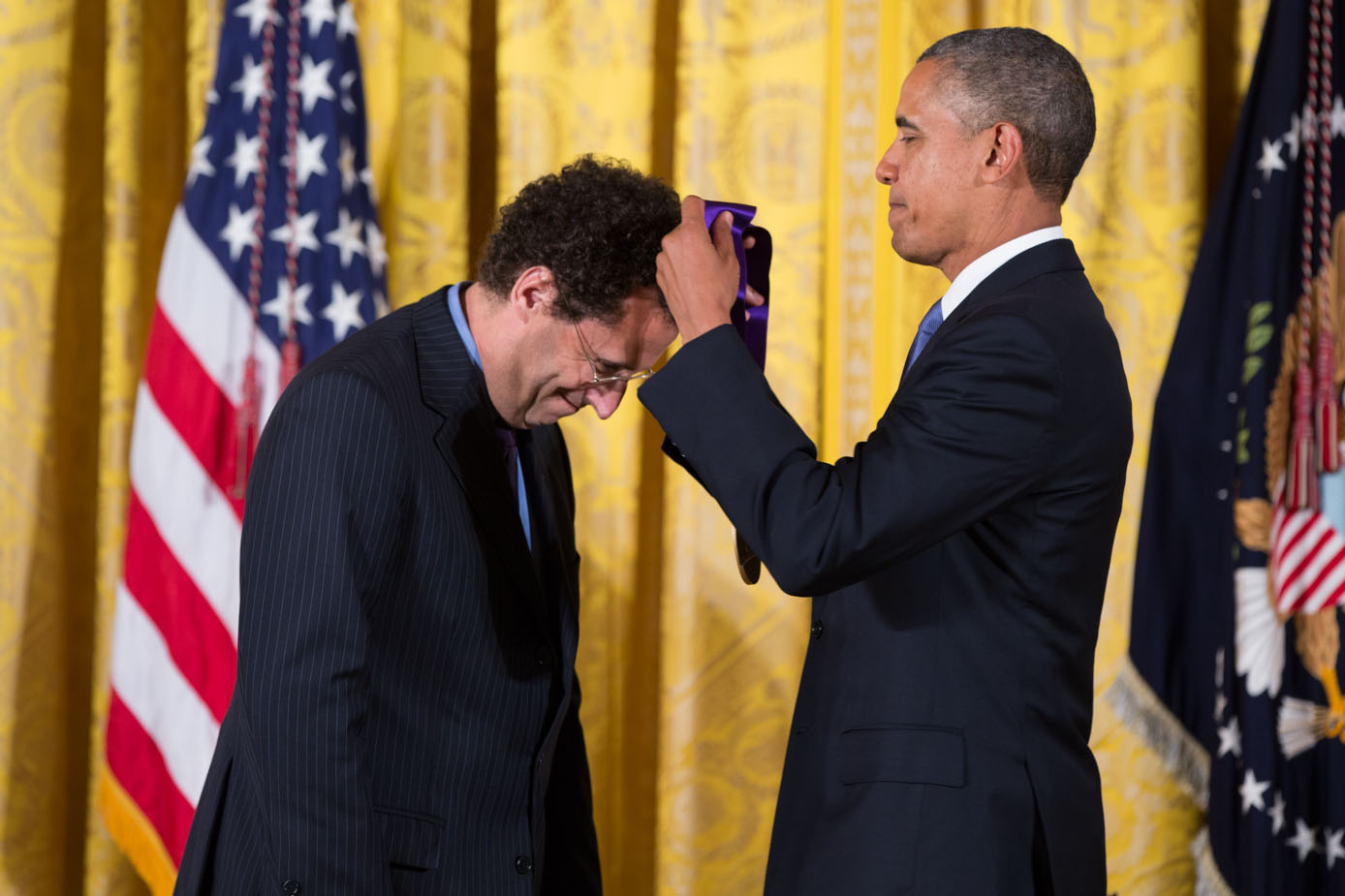 Playwright Tony Kushner receives a National Medal of Arts from President Barack Obama at the White House.